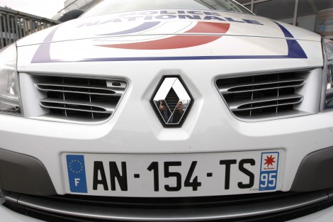 New registration of the Police Nationale de France following Registration of vehicles for life.